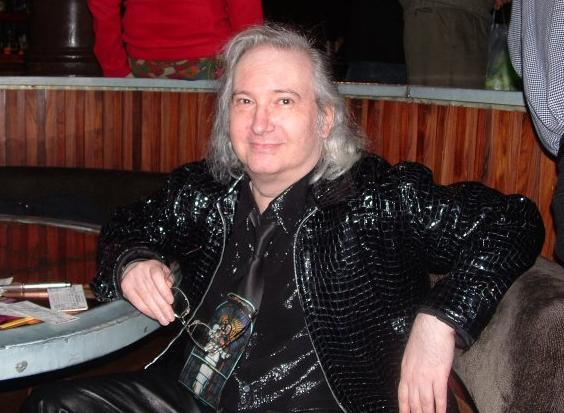 This photo has been slightly cropped from its original version to make it more centered. The original photo can be found at It was taken at Jim Steinman's "Over the Top" show on January 31st, 2005 by Justin (also known as Jsteinfan). I obtained permission from him to upload this photo to Wikipedia under the GFDL, with the intention of replacing the main photo on Jim Steinman's Wikipedia page. I also obtained approval of this replacement from the uploader of said photo. --Bellminer